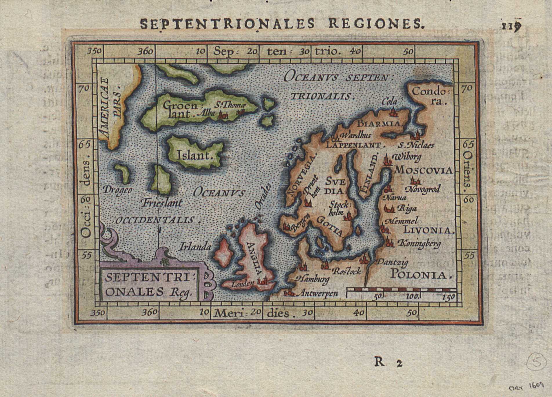 "Septentrionales region", a Dutch map of Northern Europe (1601). Author: Johannes Vrients, Netherlands.